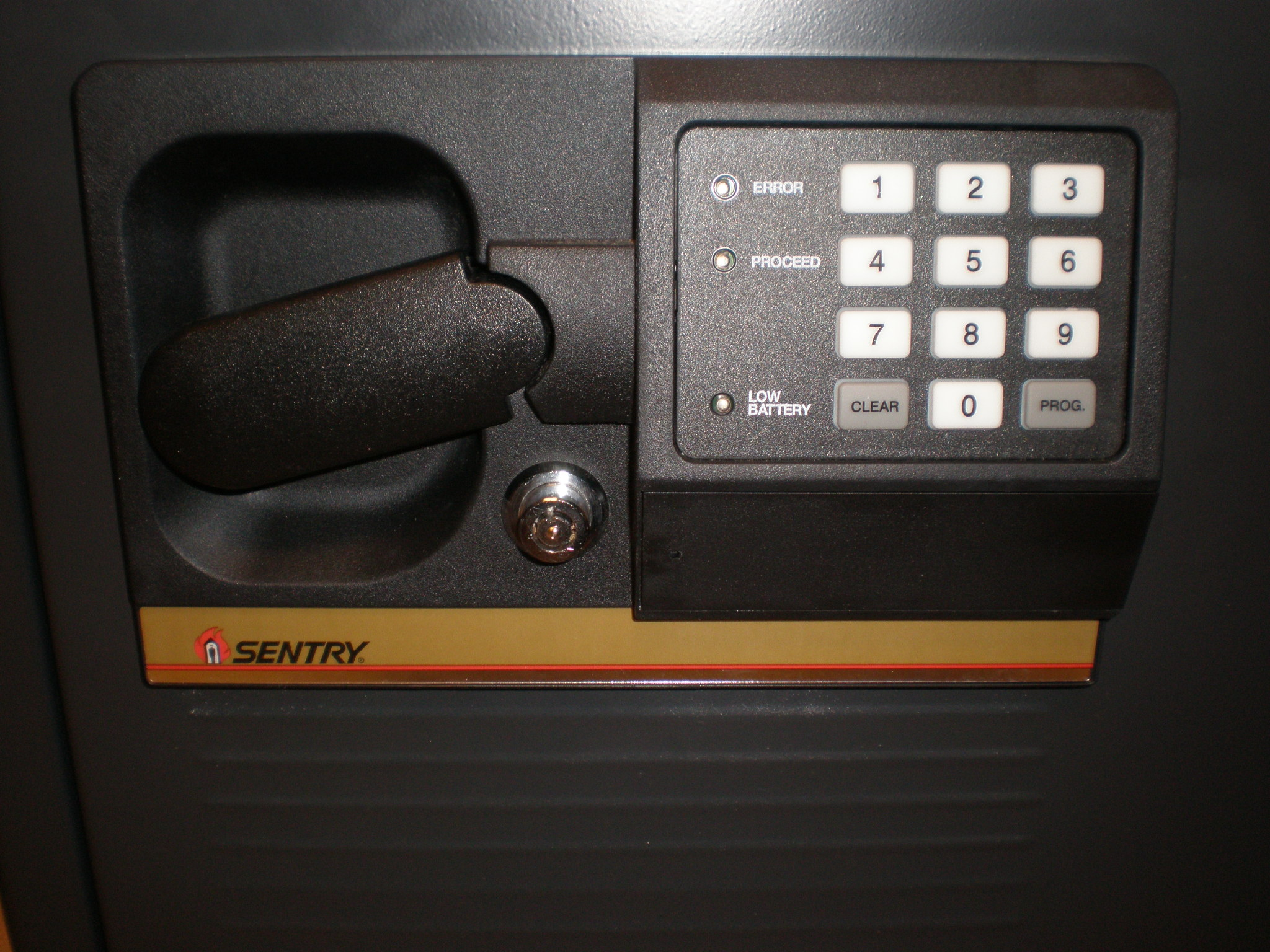 The combination panel of a Sentry Safe (model unknown), class 350-2R.